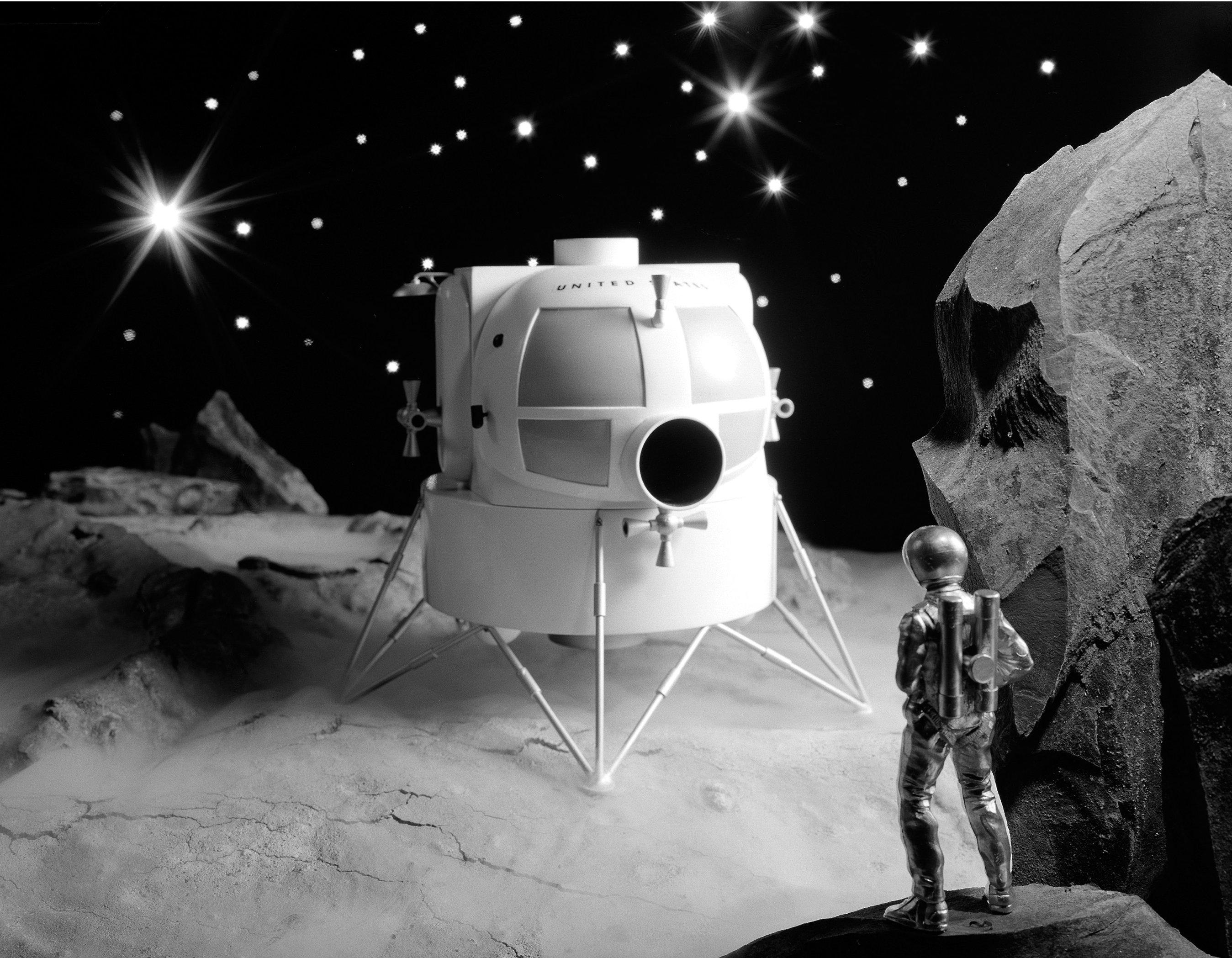 This 1963 model depicts an early Apollo lunar lander concept, called a "bug." Engineers designed several possible vehicle shapes for both manned and unmanned landers. In 1961, Bruce Lundin, former director of NASA's Lewis Research Centre (now Glenn), chaired a NASA study group that assessed a variety of ways to accomplish a lunar landing mission.